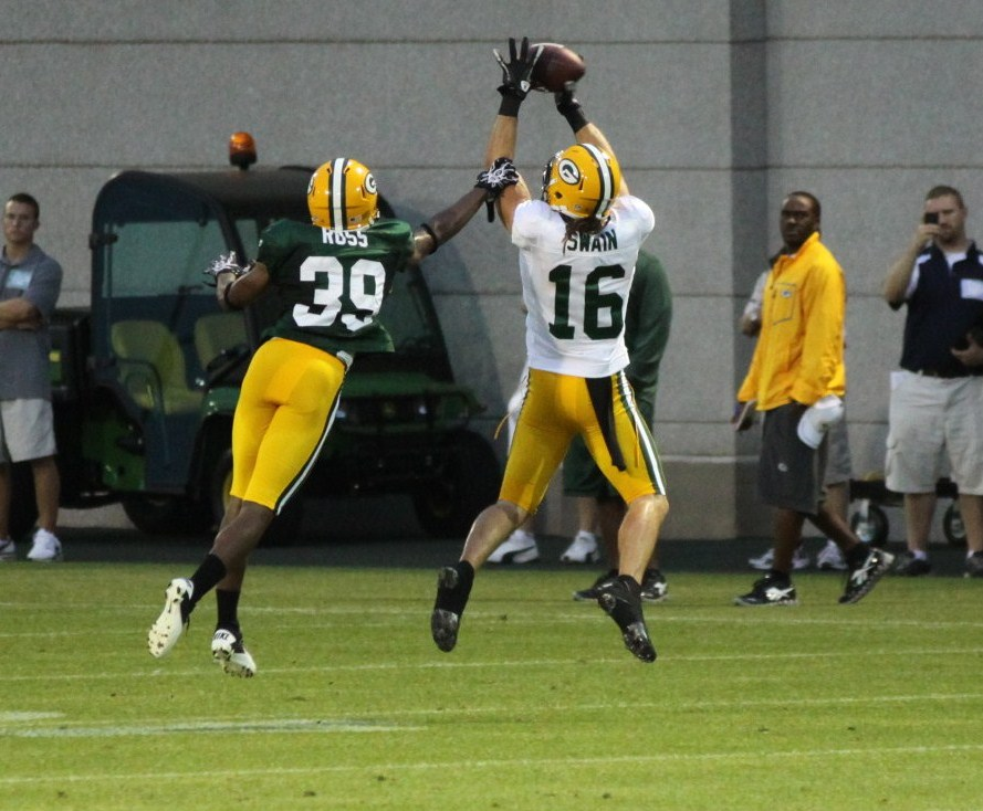 Green Bay Packers wide receiver Brett Swain (#16) during pre-season training camp at Ray Nitschke Field, Green Bay Wisconsin, August 5, 2011